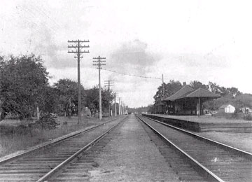 Photo: CPR station at Leaside Junction, circa 1899